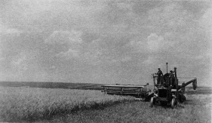 Harvest with a tractor-drawn combine in Transnistria, Moldova, 1941